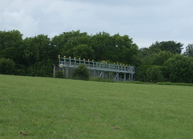 Airport Approach Lights at The Bulwarks One set of the approach lights for Runway 30 at Cardiff International Airport.